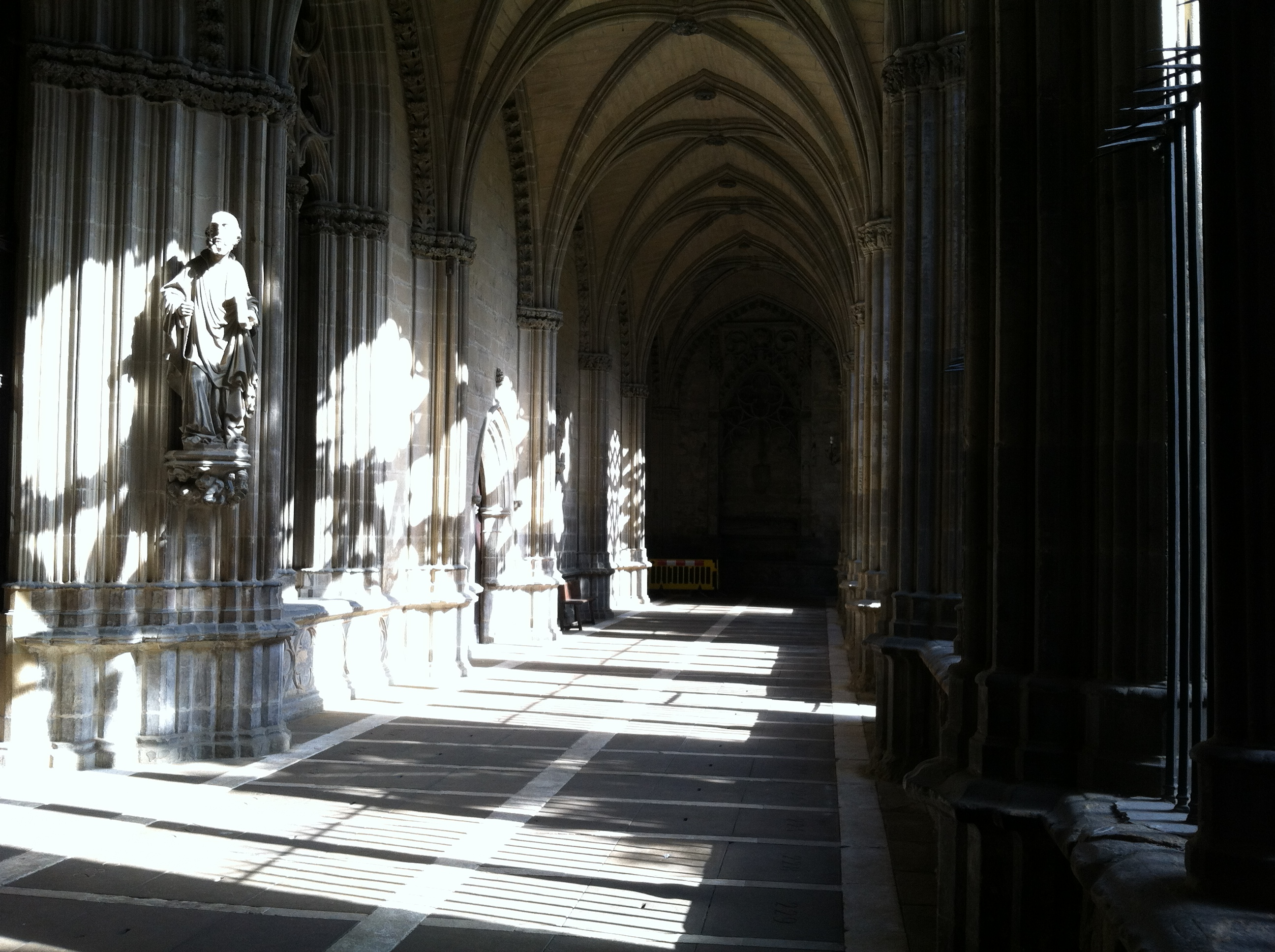 A view of one side of the cloister of the Cathedral of Pamplona, Spain